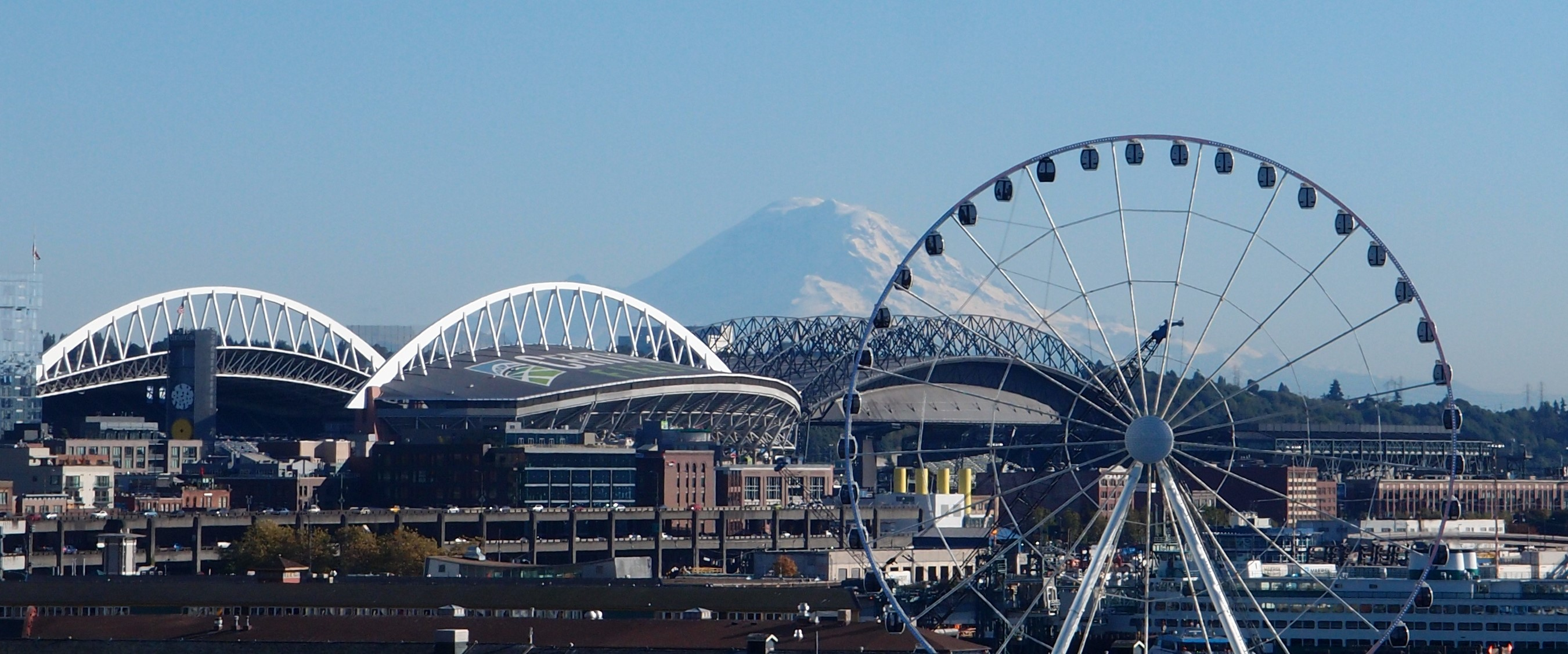 Seattle Great Wheel, Mount Rainier, and CenturyLink Field seen from Alaskan Way Viaduct